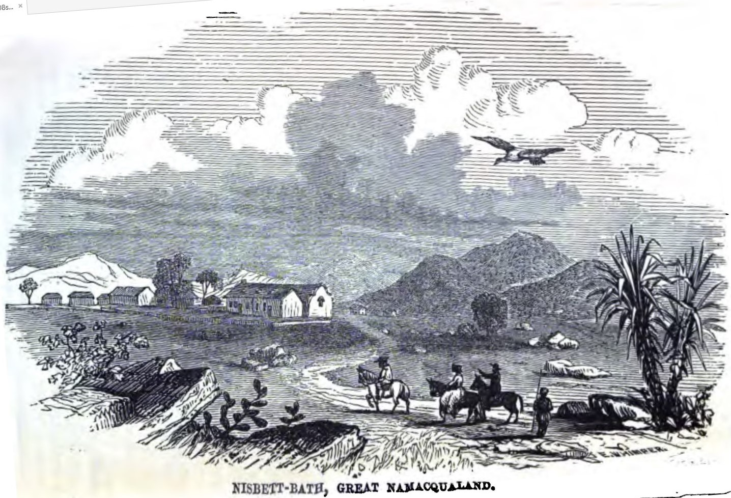 Nisbett-Bath, Great Namacqualand (February 1852, p.12, IX)